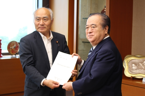 Masayoshi Yoshino, Minister for Reconstruction, met Masaru Hashimoto, Governor of Ibaraki Prefecture, at Ibaraki Prefectural Government Building in Mito City, Ibaraki Prefecture on June 28, 2017.